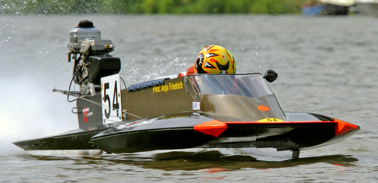 Anja Friedrich from Bad Saarow laying in her proprider (hydroplane)